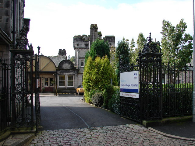 Thomas Hope Hospital, Langholm The hospital was built 1894-6 in a plain Jacobean style with a square tower.